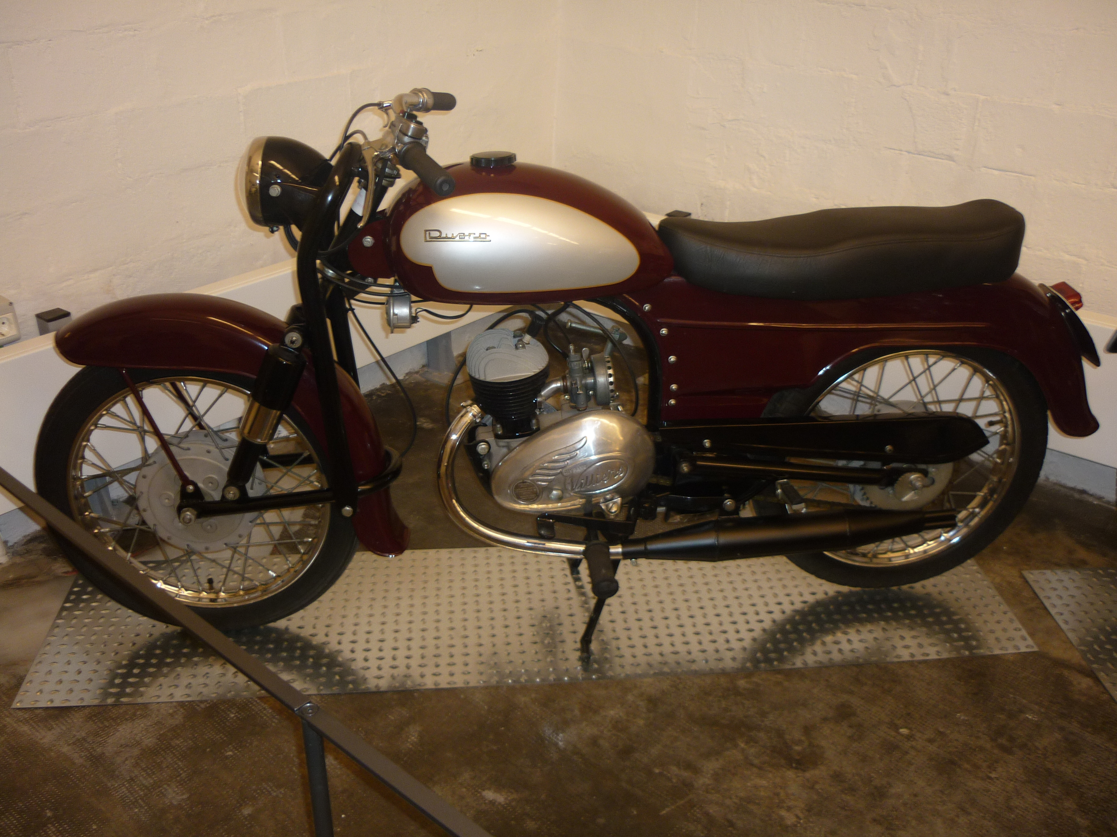 Dusco A-125 125cc (1957). Museu de la Moto de Barcelona (Catalonia).